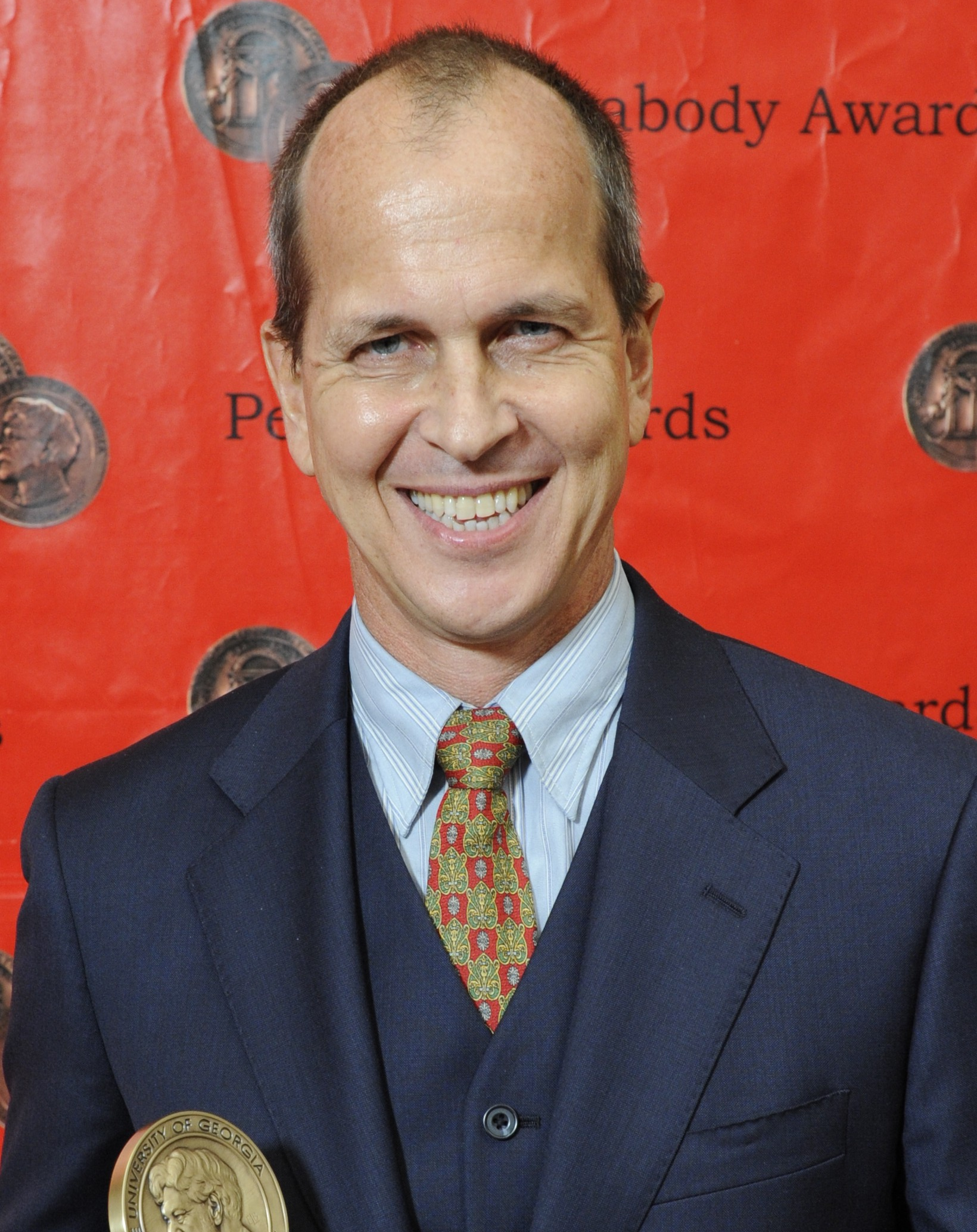 Greste with his Peabody award for "Somalia" 71st Annual Peabody Awards Luncheon Waldorf=Astoria Hotel May 21, 2012